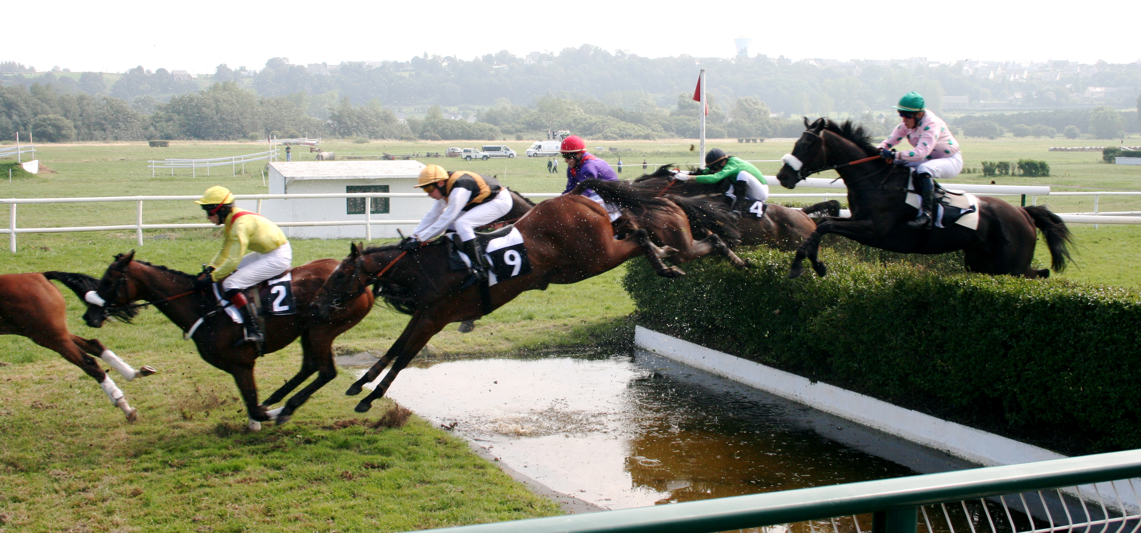 A steeplechase